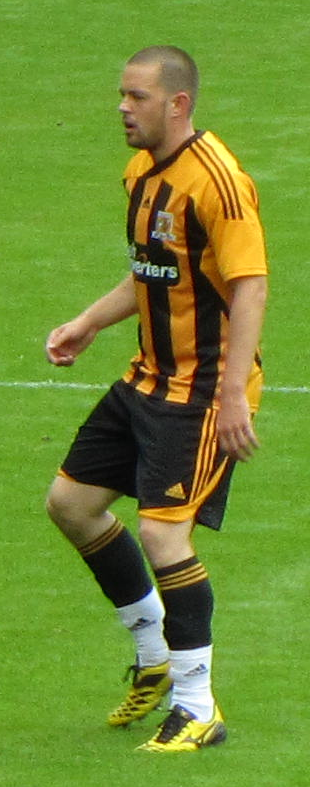 Matty Fryatt